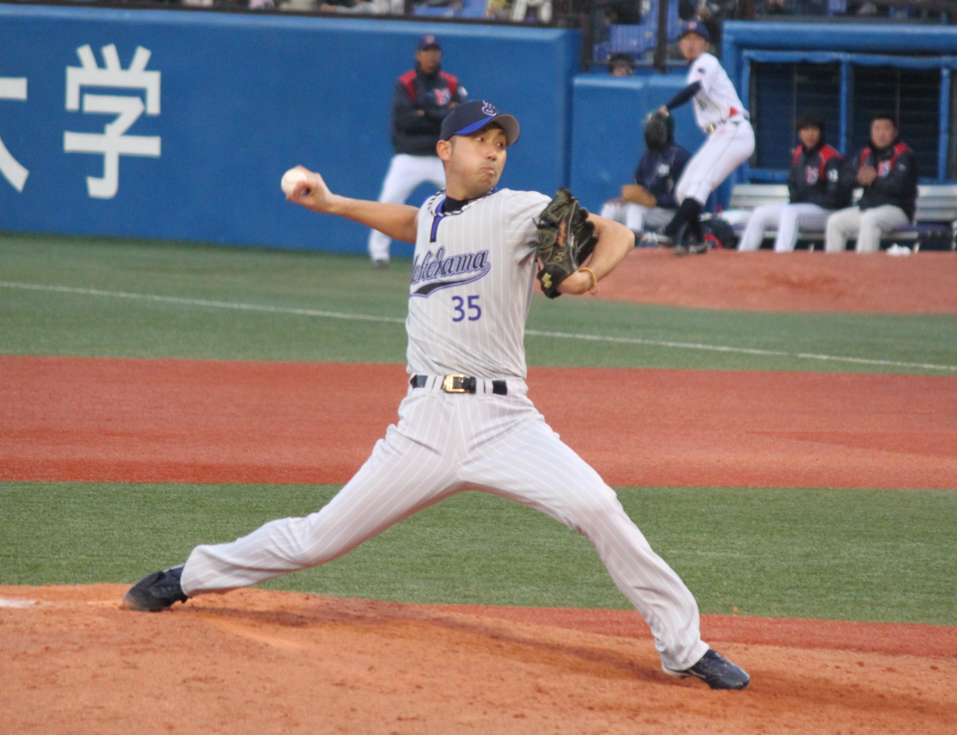 Shigeki Ushida, pitcher of the Yokohama BayStars, at Meiji Jingu Stadium.